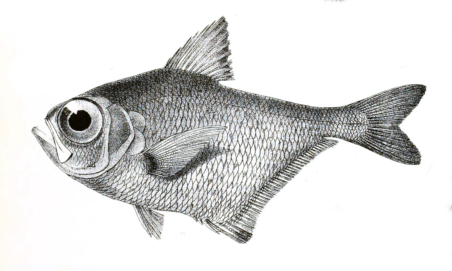 The species names / identity need verification. The original plates showed the fishes facing right and have been flipped here. Pempheris molucca